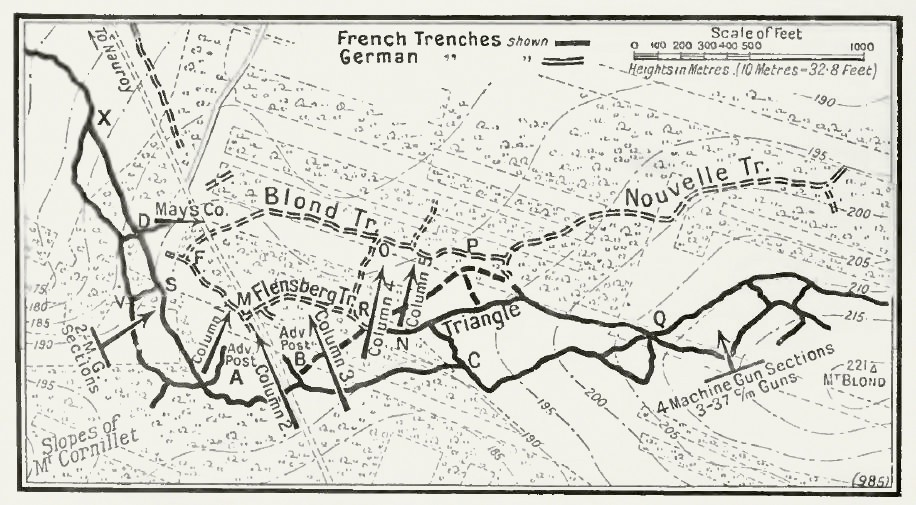 Battle of the Hills 1917